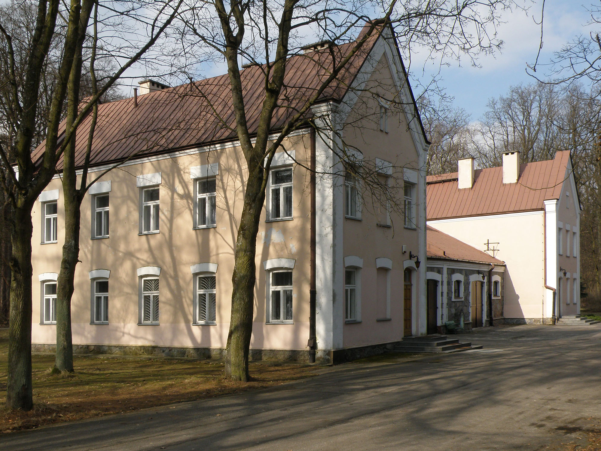 Poland, Radziwills’ Palace in Jadwisin